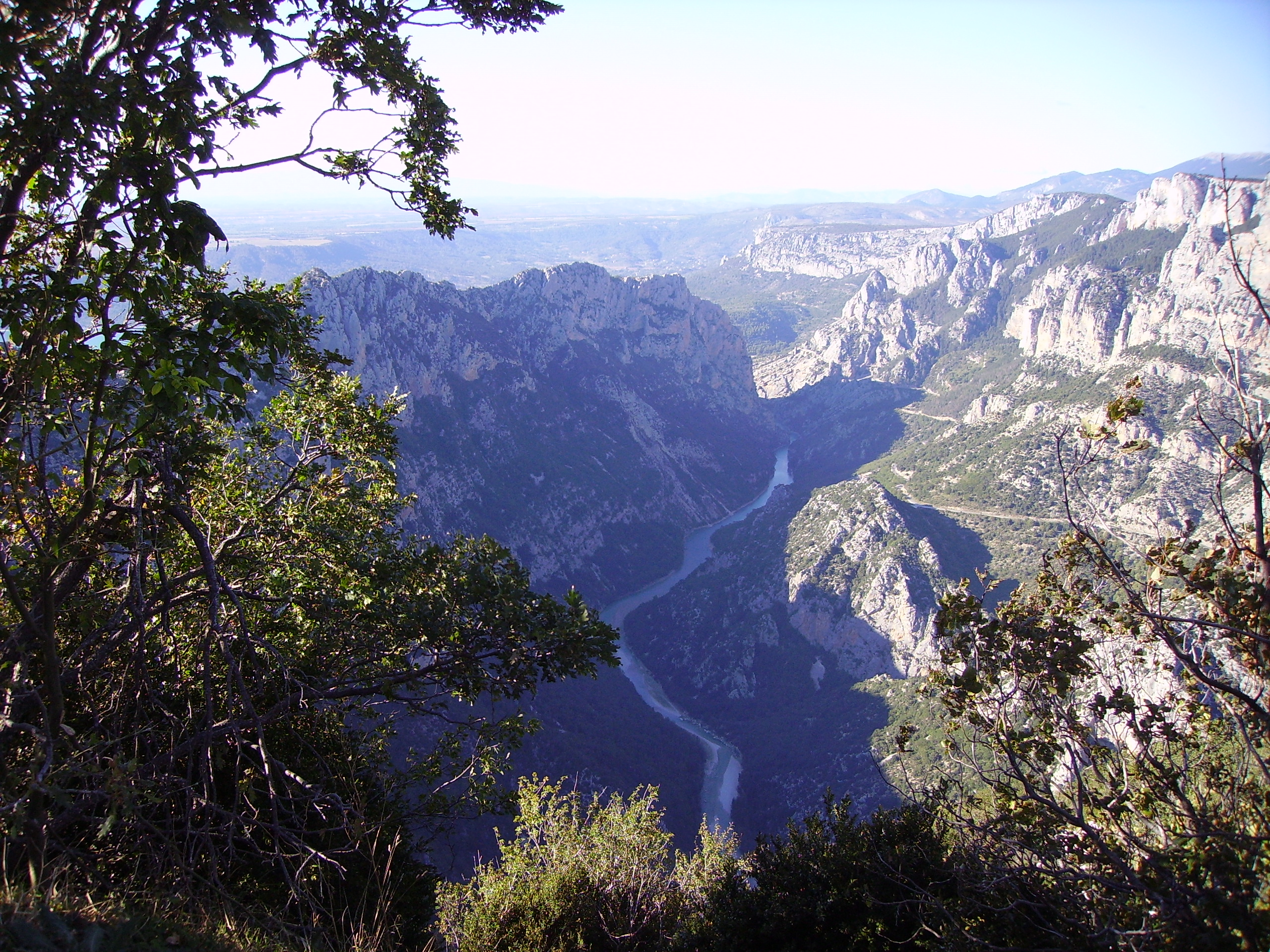 Photographer: User:Ballista